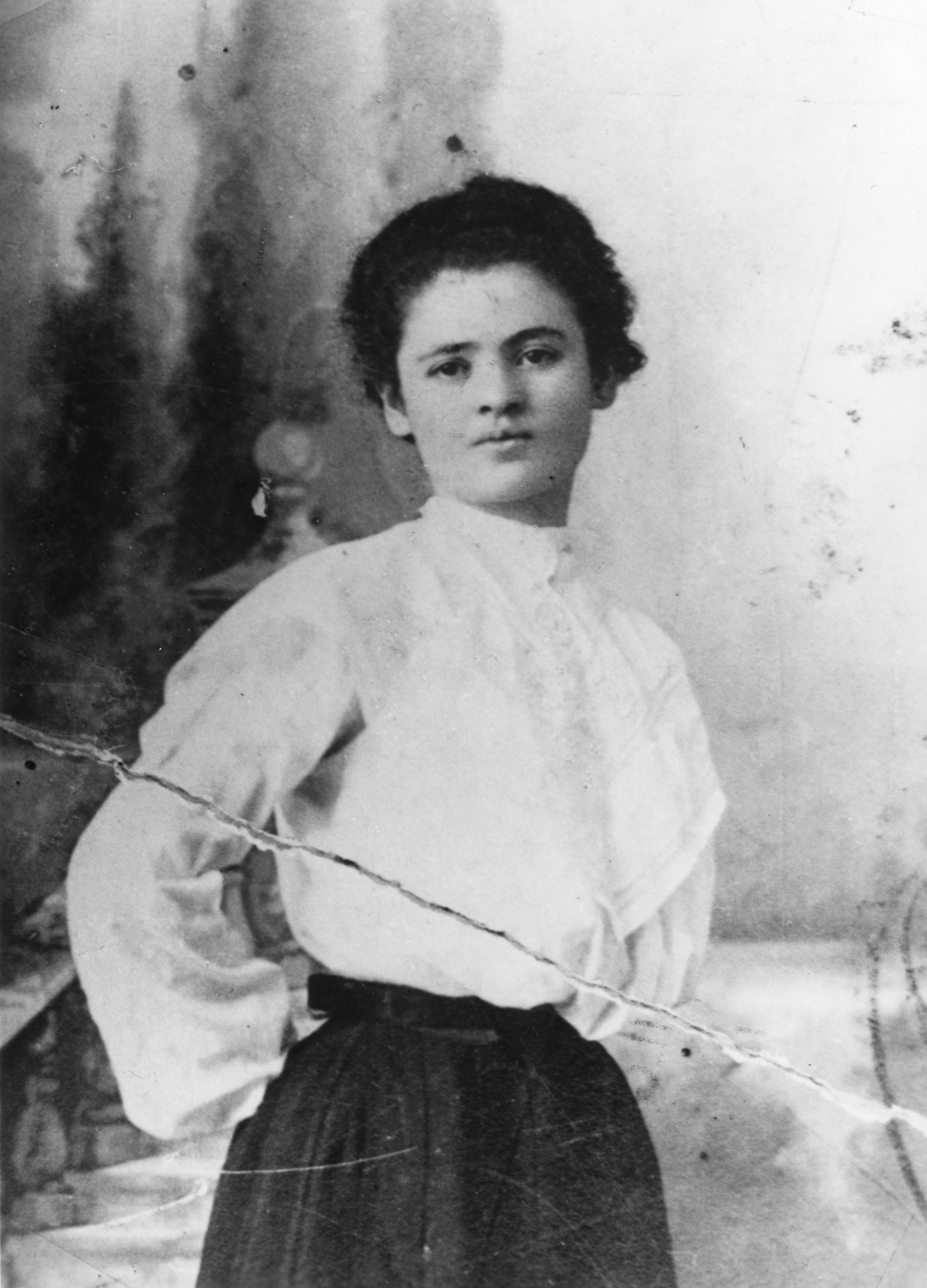 Portrait of Clara Lemlich (March 28, 1886 – July 25, 1982), leader of the Shirtwaist Strike of 1909-1910 in New York. Photograph circa 1910. Part of the International Ladies Garment Workers Union Photographs (1885-1985) collection located at The Kheel Center for Labor-Management Documentation and Archives in the ILR School at Cornell University.